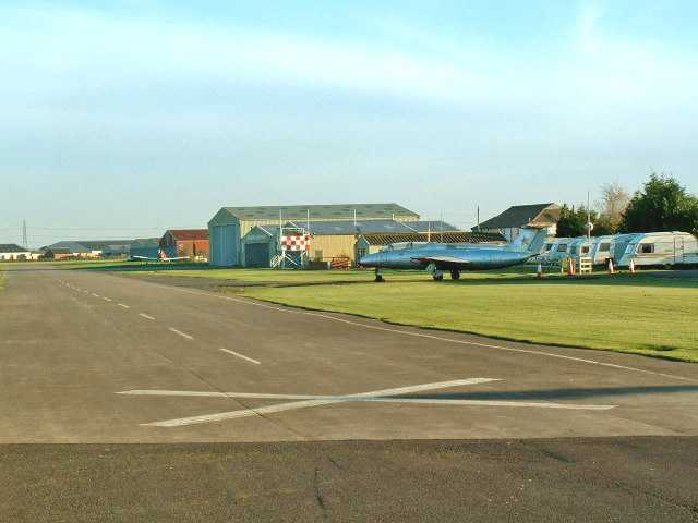 Breighton Airfield and Aeroplane Museum, Breigton, East Riding of Yorkshire, England, a former RAF base.